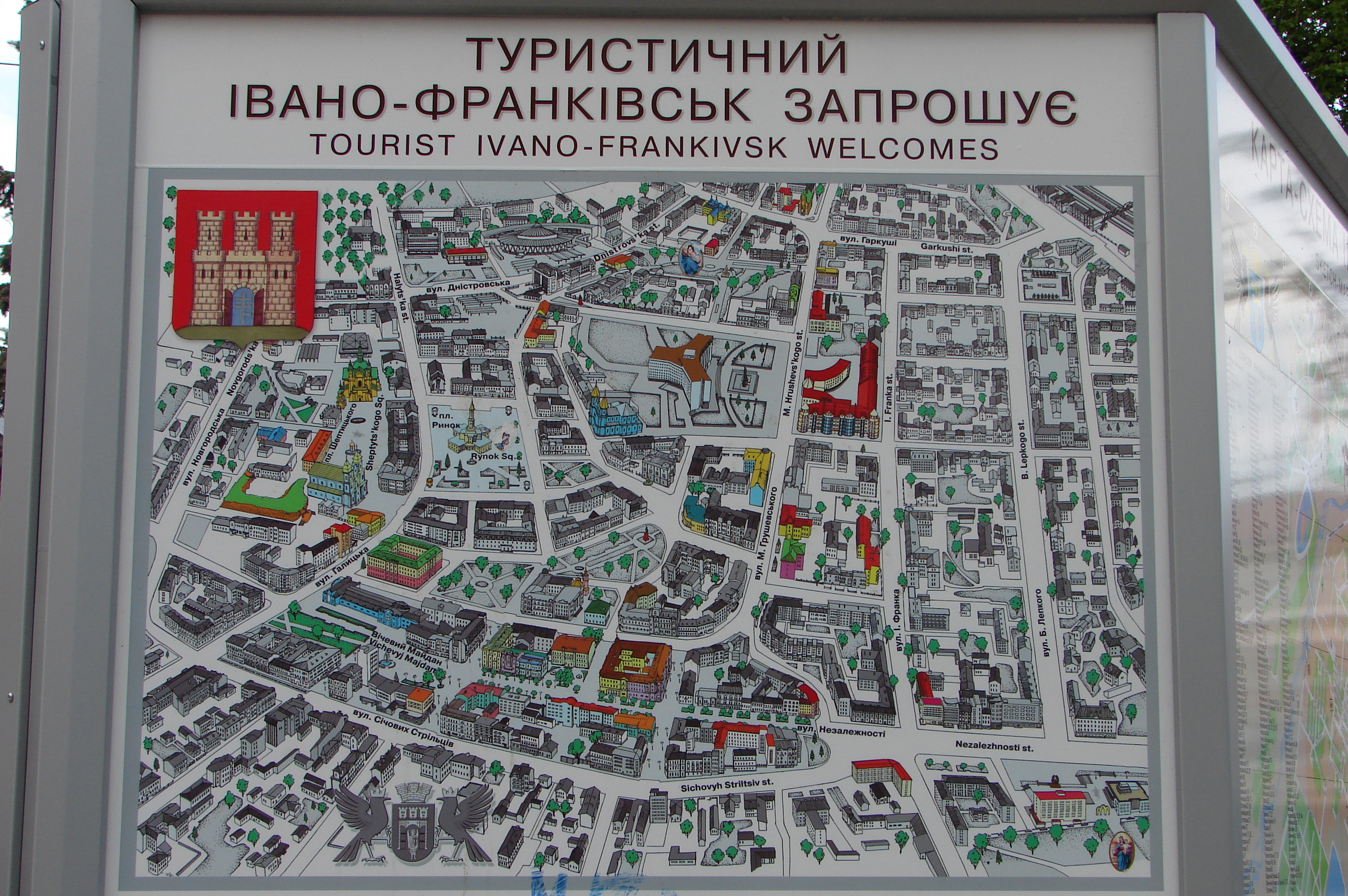 Photo of turistic map-plan of central Ivano-Frankivsk